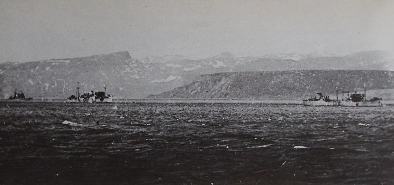 Heavy cruiser Nachi, Aux. submarine tender Heian Maru and Aux. oiler Teiyō Maru (left to right) at Paramushir